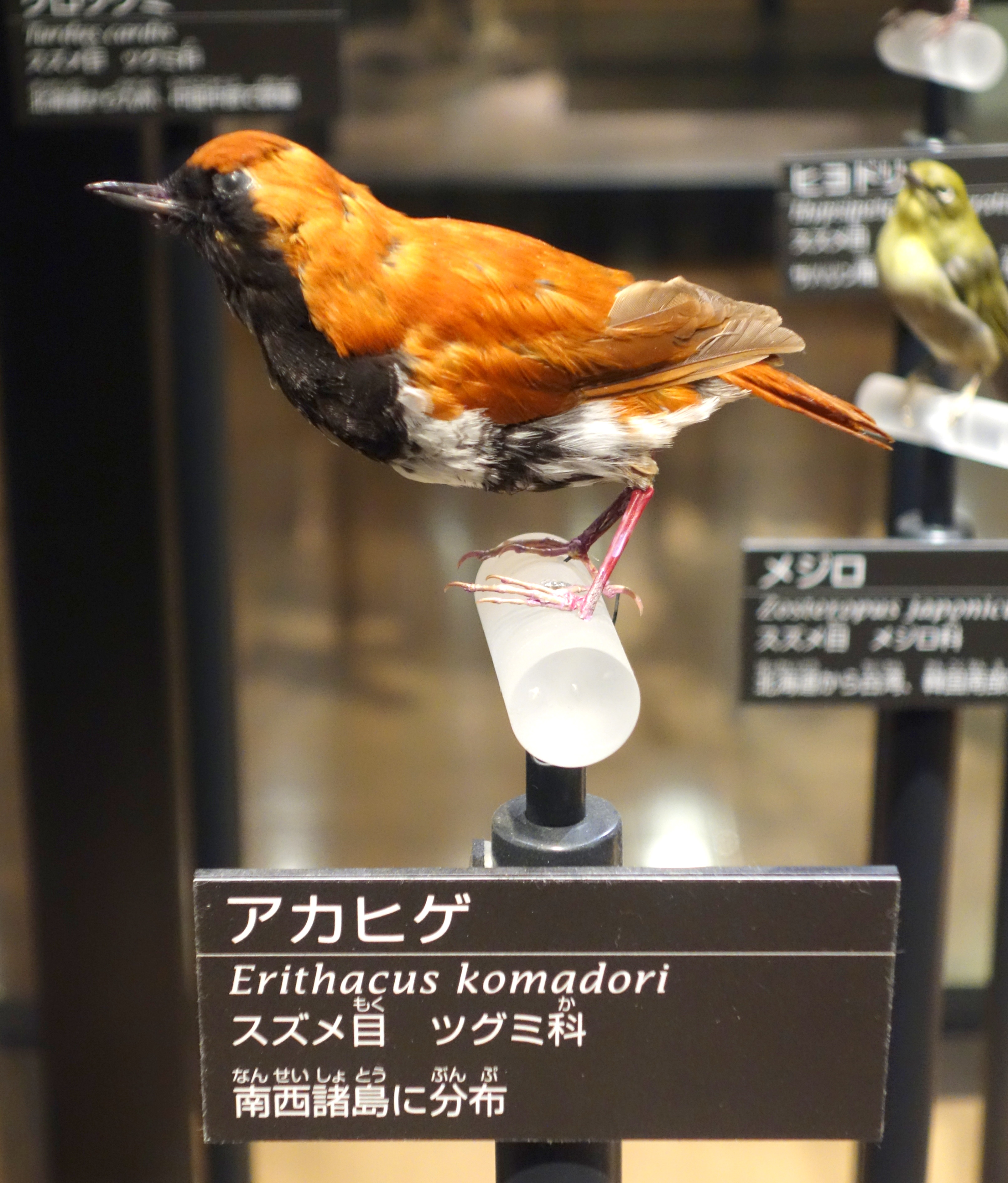 Exhibit in the National Museum of Nature and Science, Tokyo, Japan.